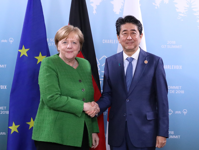 Prime Minister of Japan Shinzō Abe and Chancellor of Germany Angela Merkel at the 44th G7 summit.